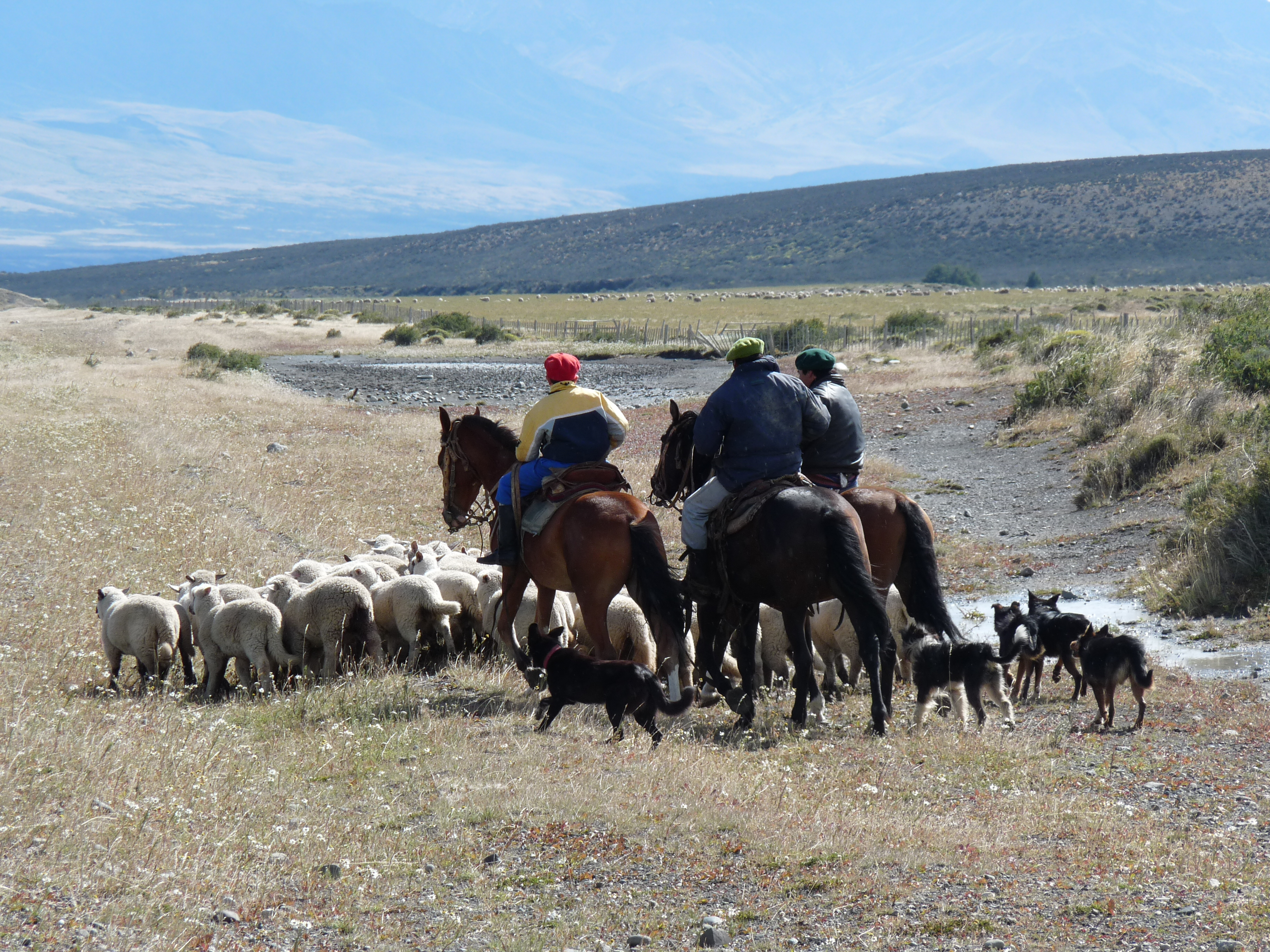 Modern huasos working in Chilian Patagonia near Torres del Paine National Park. They are not wearing traditional garbs but do the same job as their ancesters.